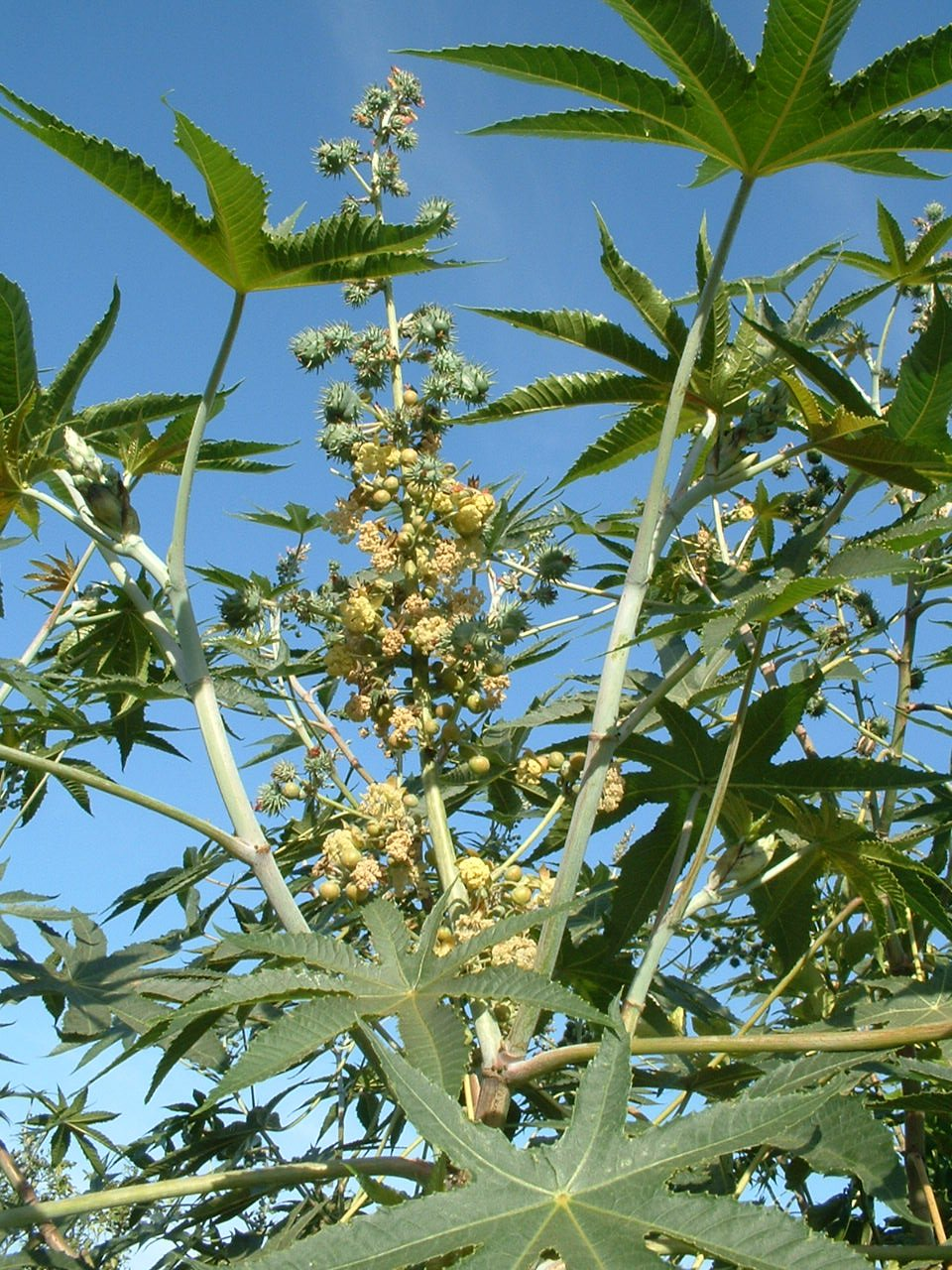 A castor bean plant (Ricinus communis) showing leaves, flowers and young fruit. Photographed by myself today, December 2, 2005, with Fuji FinePix 2650 camera. Rickjpelleg 16:00, 2 December 2005 (UTC)